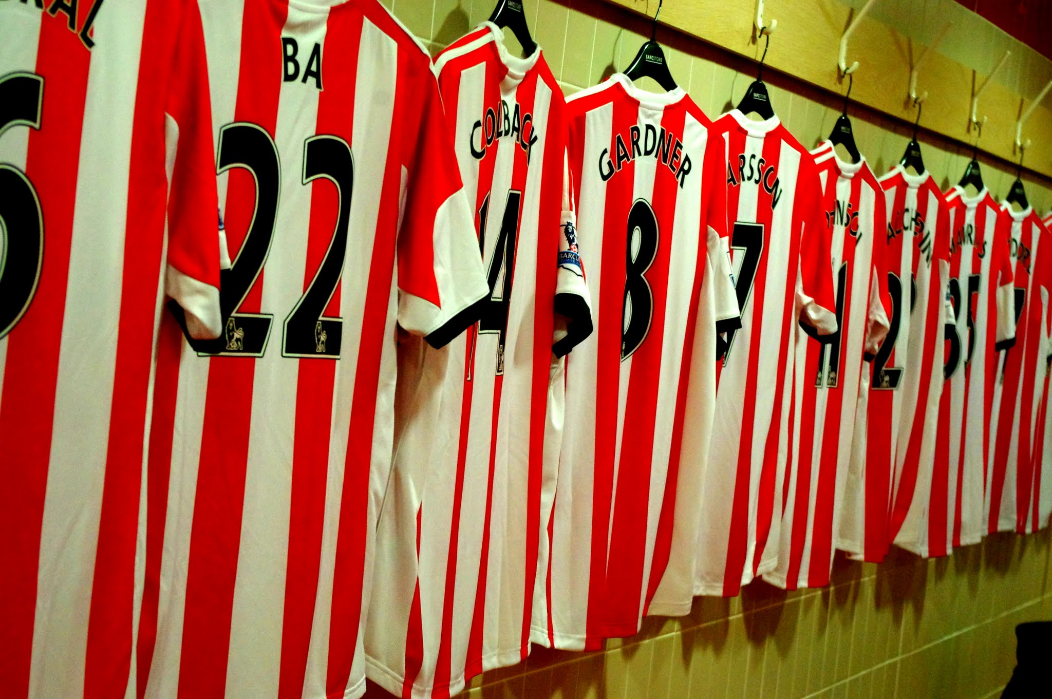 Home changing room